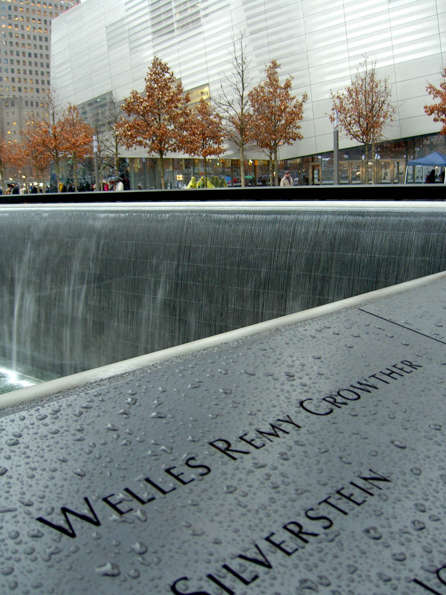 The name of Welles Crowther is among those inscribed on bronze panel S-50 of the South Pool of the National September 11 Memorial in Manhattan, as seen on December 6, 2011. This photo was created by Luigi Novi. If you have any questions, you can contact me by sending me an email or User talk:Nightscream